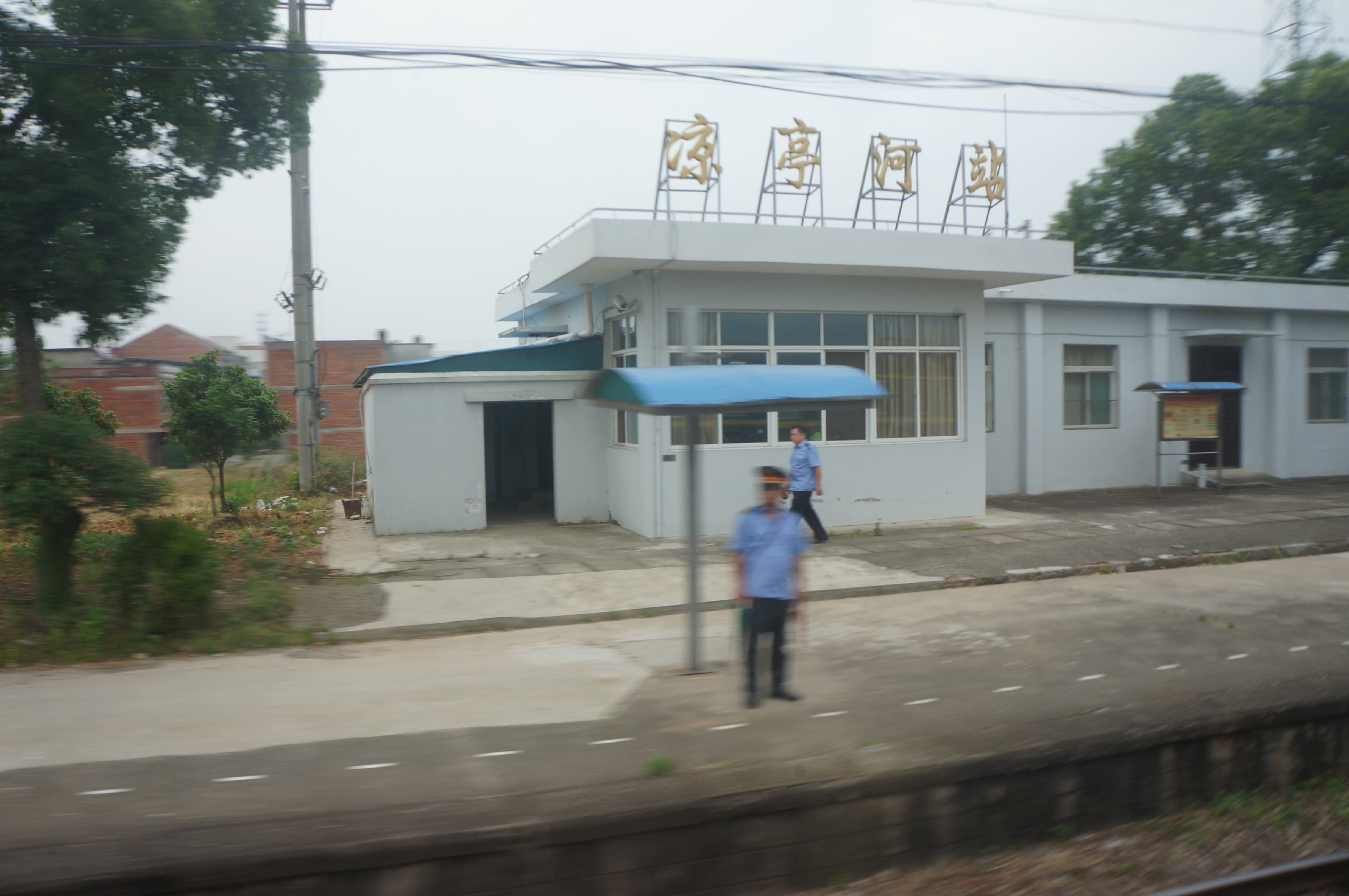 201705 Station building of Liangtinghe Station